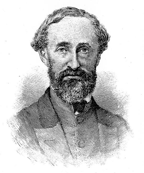 Commander James Wallace Cooke, C.S.N. 19th Century engraving. Courtesy of the U.S. Naval Academy Museum, Harbeck Collection. U.S. Naval History and Heritage Command Photograph.